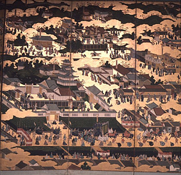 Screen painting of the Nijo Castle. Kyoto, early 17th C. Burke Collection, New York.